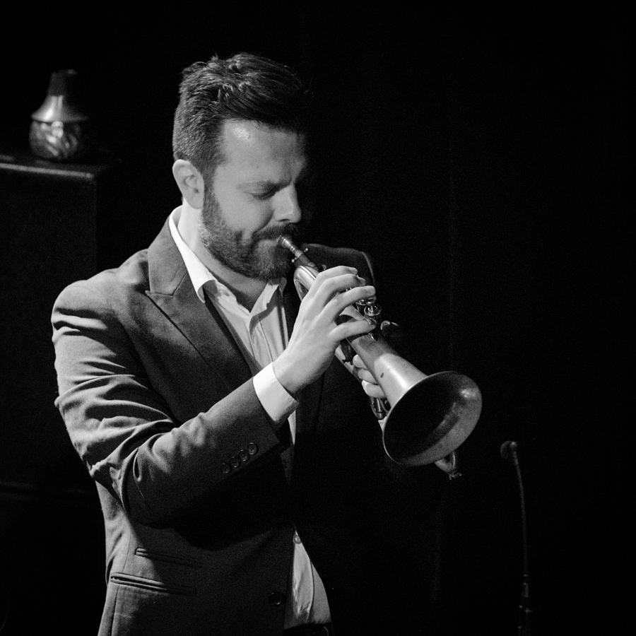 Jonne Bentlöv at the stage with Bo Sundström at Victoria Teater. The concert took place on 22. February 2019 in Oslo. Lineup:Bo Sundström (vocal)Jonne Bentlöv (trumpet and flugelhorn)Björn Jansson (tenor saxophone and baritone saxophone)Robert Östlund (guitar)Vladan Wirant (piano)Ulf Engström (double bass)Daniel Fredriksson (drums)